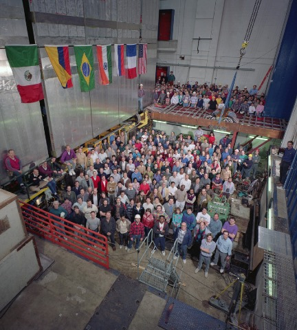 A photo of the DZero Collaboration at Fermilab in 1992.